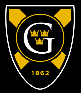 Gustavus Adolphus College Crest